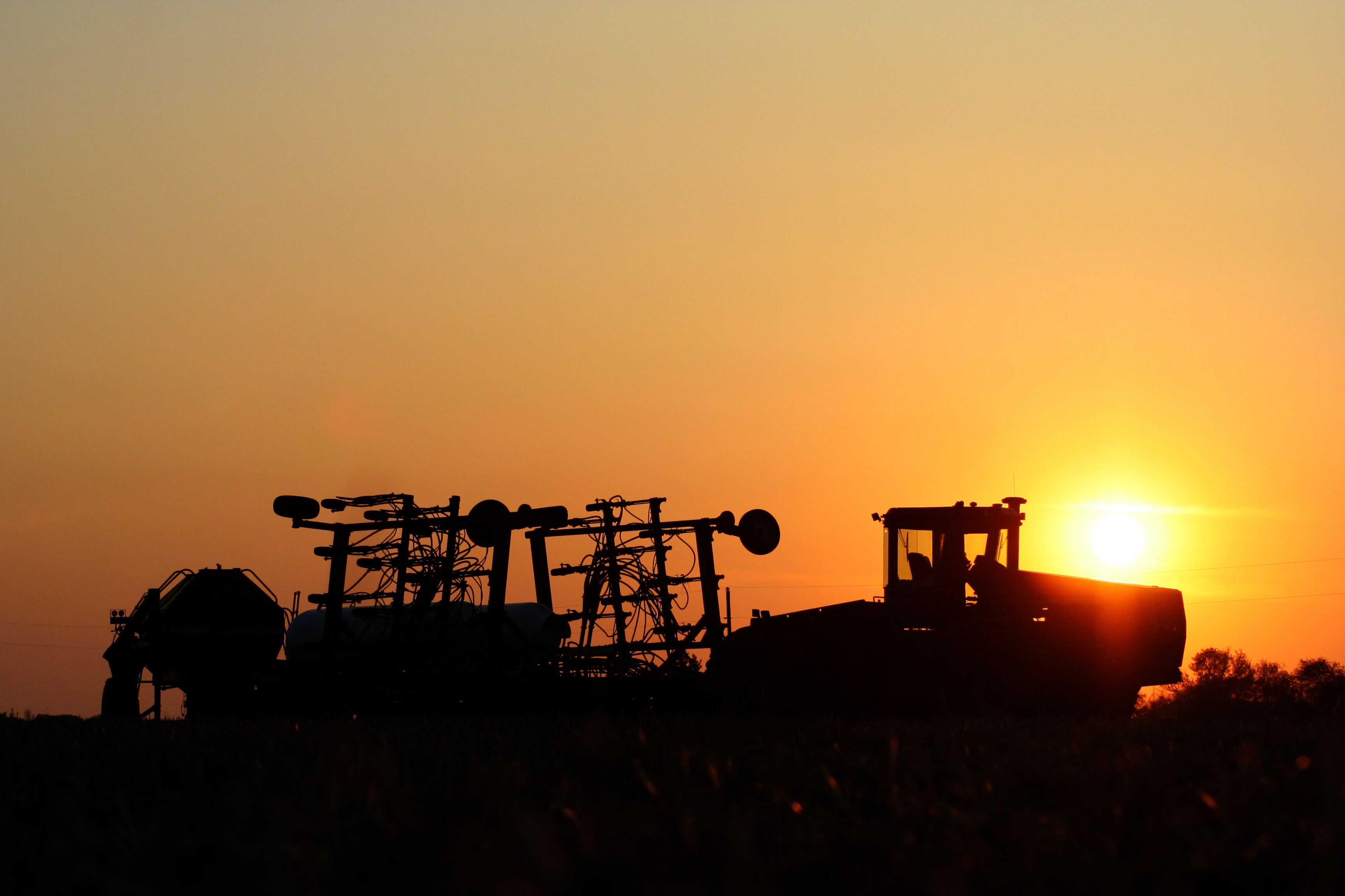 Wallace, MB R0M, Canada